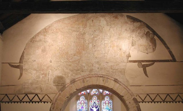 All Saints, Patcham, Sussex - Chancel arch